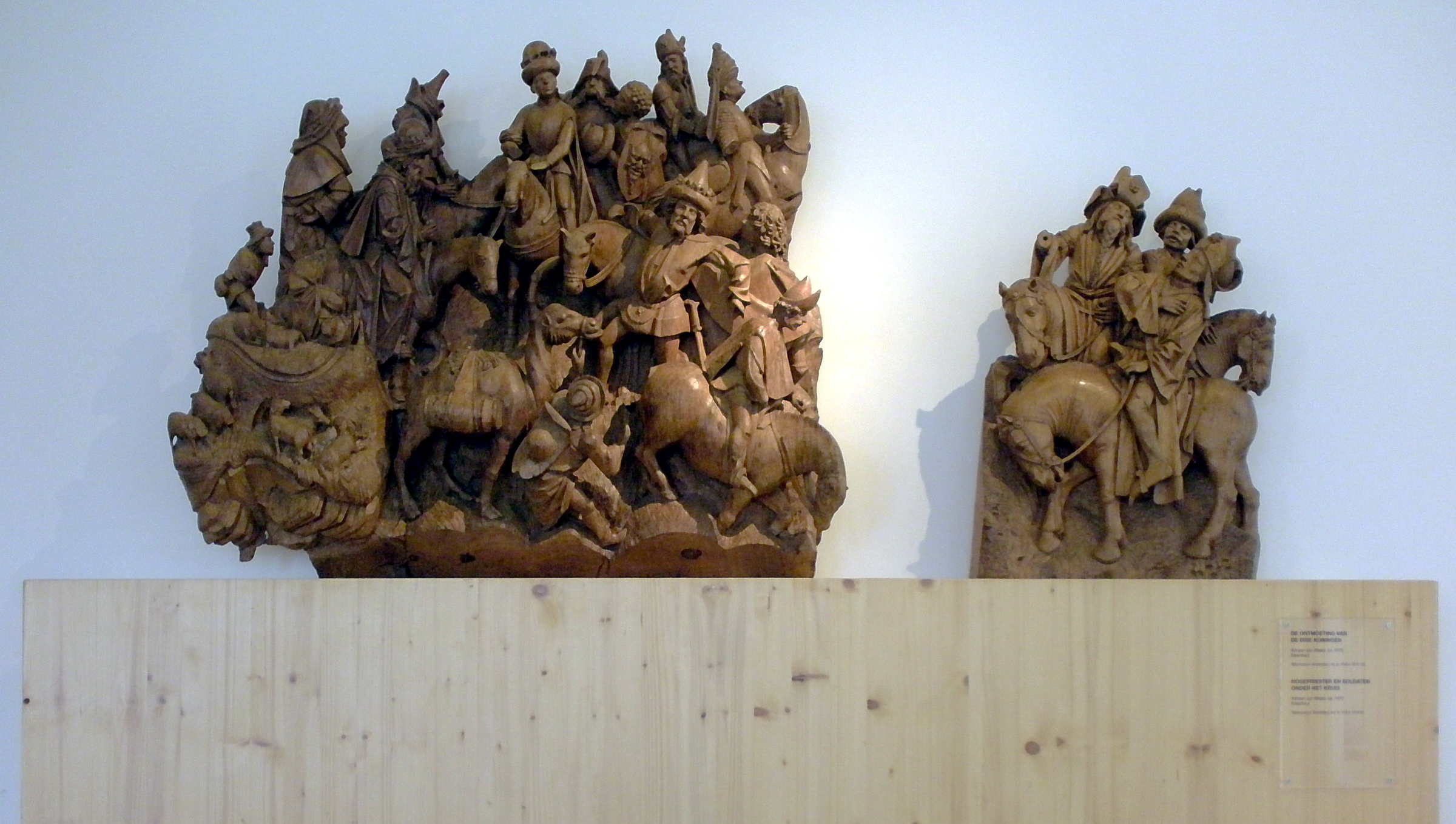 Uden, the Netherlands, Museum of Religious Art. Late medieval wooden reliefs by Adriaen van Wesel. Left: The three Magi (c 1475), right: Highpriest and soldier underneath the Holy Cross (c 1470).